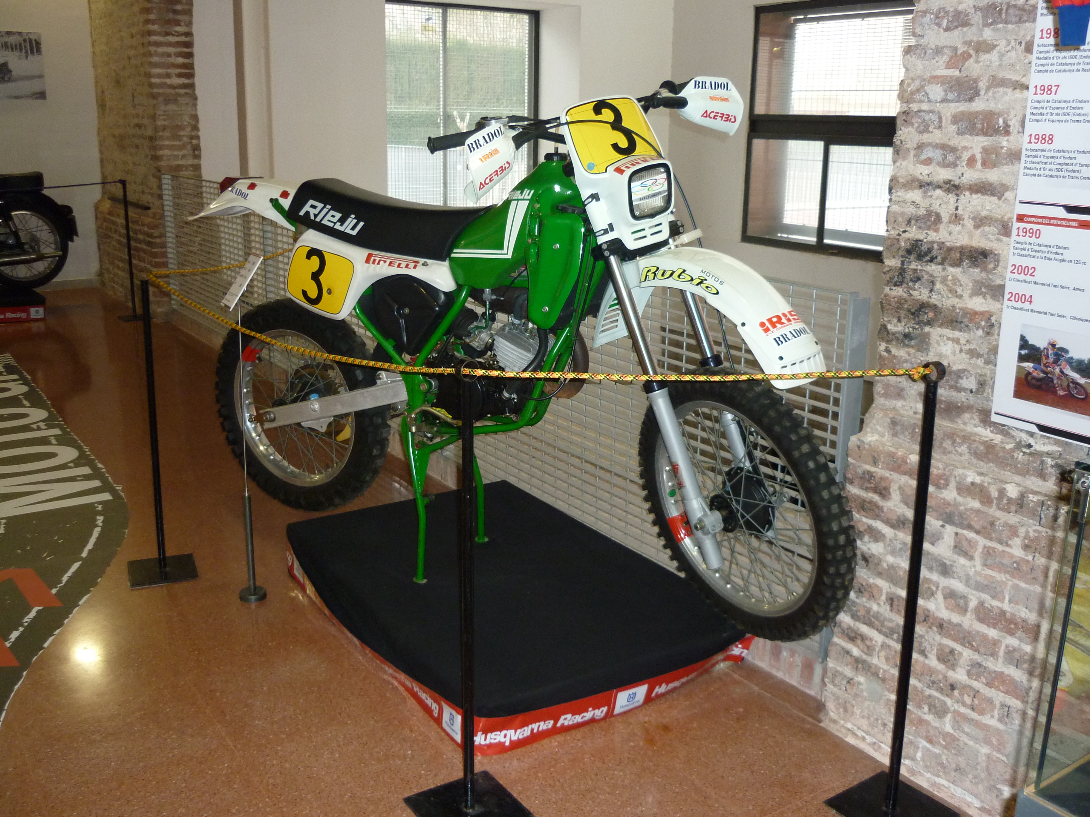 Rieju MR 80 (1985). Rieju works team motorcycle ridden by Francesc Rubio during season 1985. On this bike, Rubio won the Spanish Championship and the second place (80cc and Trophee) at ISDE'85.